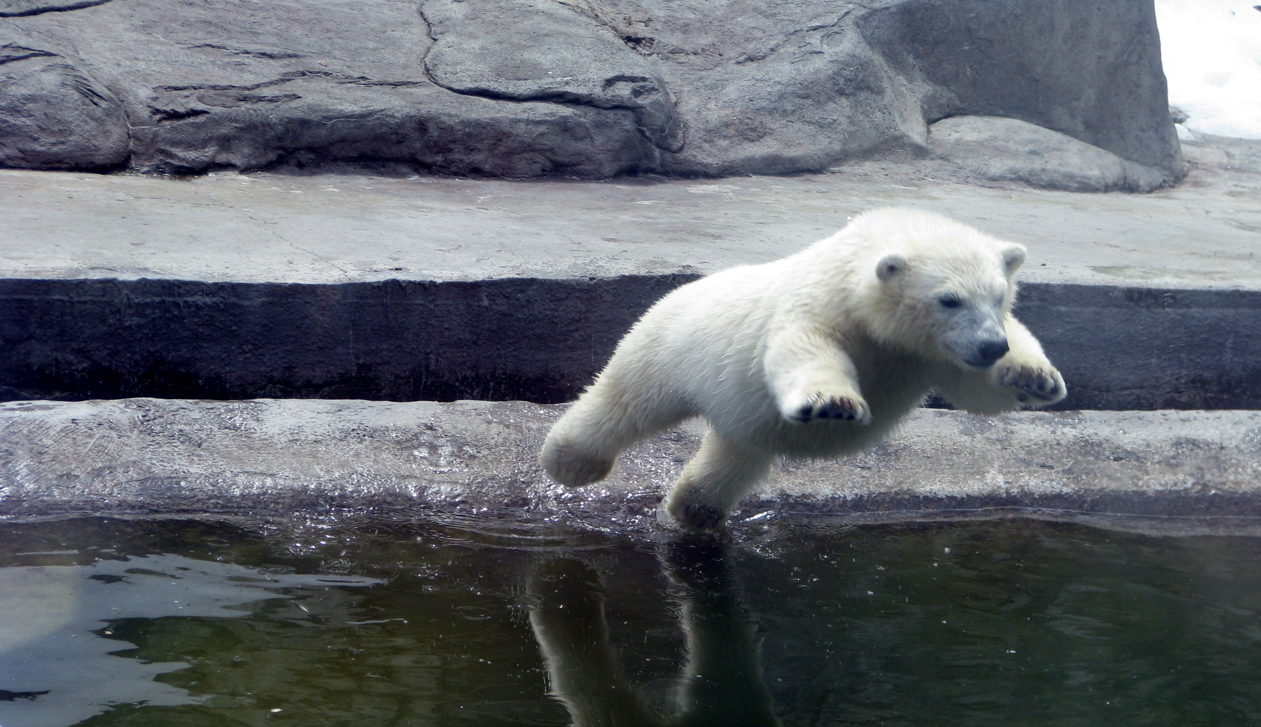 Juvenile Polar Bear Ursus maritimus from Moscow Zoo collection